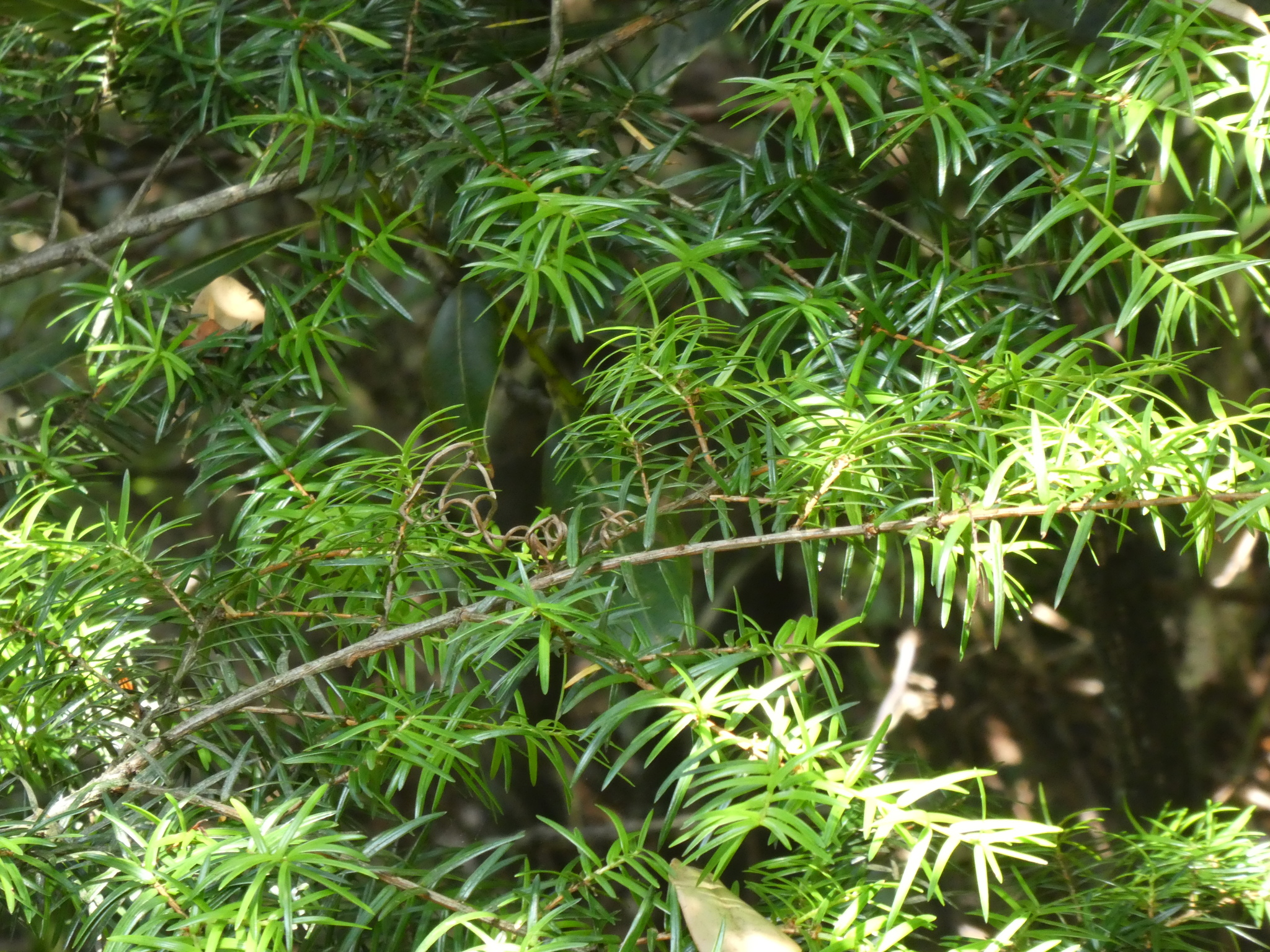 Nothotsuga longibracteata foliage, Guangdong, China